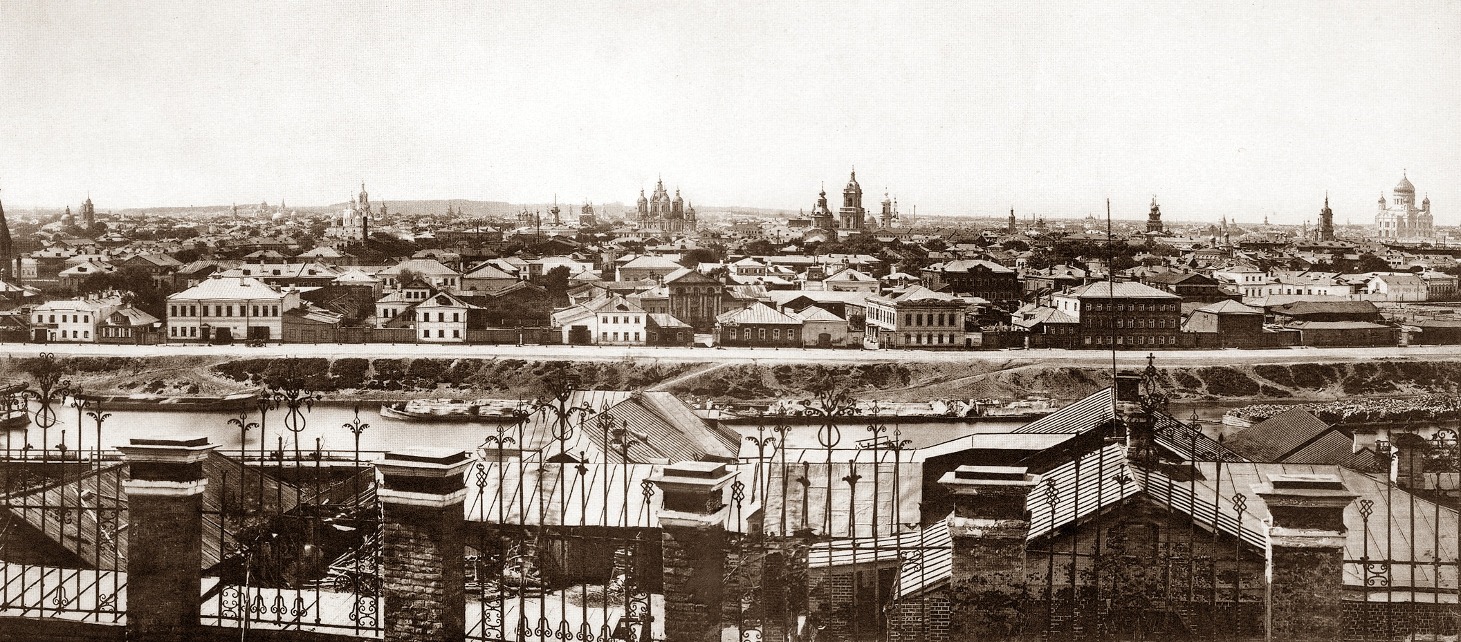 View of Zamoskvorechye from Vshivaya Gorka